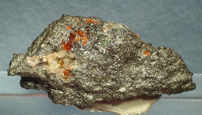 Stottite, Ludlockite, Germanite Locality: Tsumeb Mine (Tsumcorp Mine), Tsumeb, Otjikoto (Oshikoto) Region, Namibia (Locality at ) Size: 4.5 x 2.1 x 2.0 cm. Stottite and ludlockite are two of the very rare mineral species for which the Tsumeb Mine is renowned . It is also the Type Locality for both species. The rich piece of rare germanite ore hosts a small vug that is lined with bundles of brilliant, reddish-orange ludlockite hairs and a 2 mm, gemmy, brown, tetragonal stottite crystal. This crystal is brilliantly lustrous and easily eye visible. This is an excellent combination of the rarities and came from the one-time find at the 30 Level. Well-Crystallized Stottite is unique to Tsumeb. Ex. Rob Smith Collection.